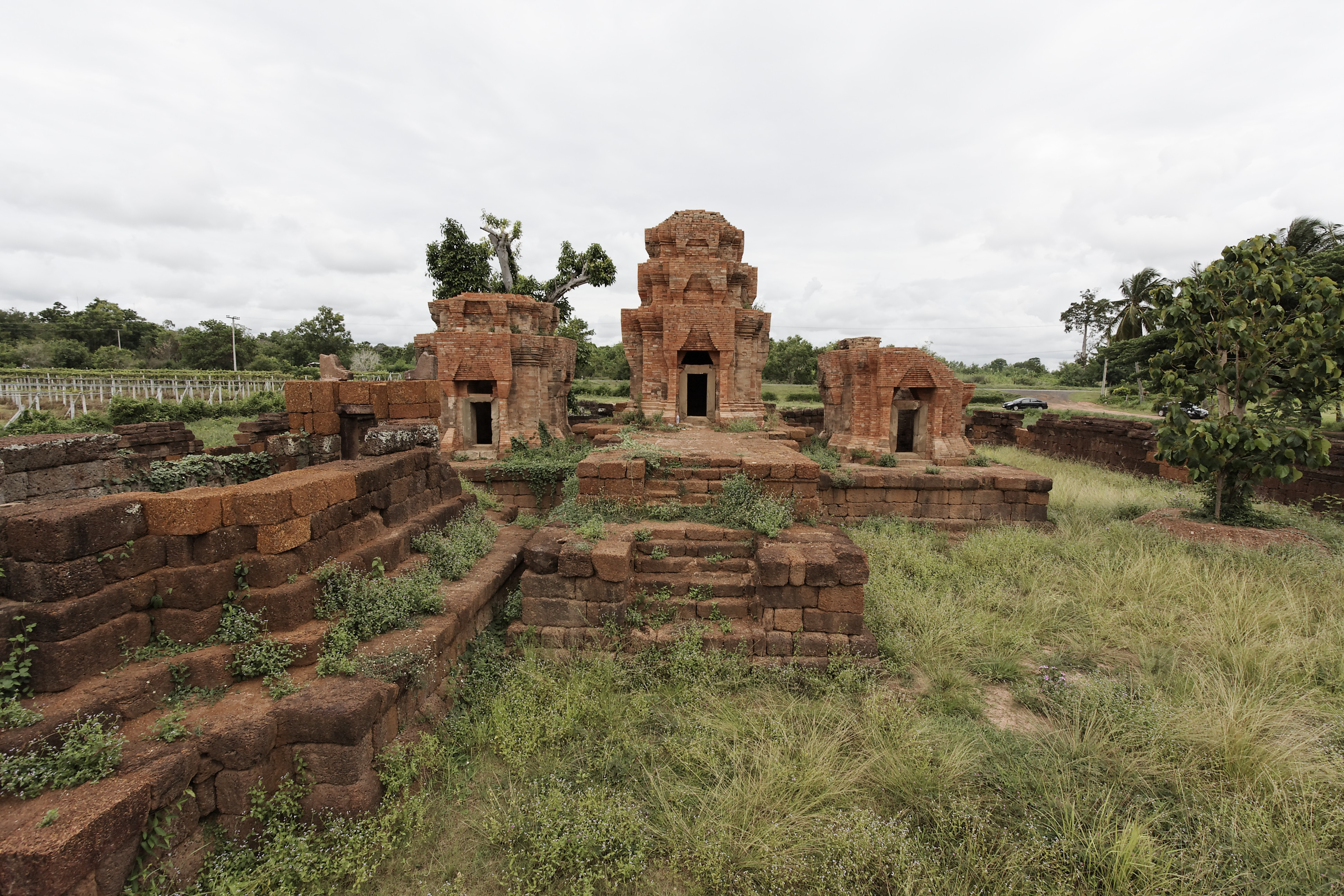 Prasat Hong Nong, Thailand